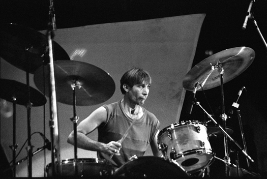 Charlie Watts from The Rolling Stones; Rolling Stones concert on December 11, 1981, Rupp Arena, Lexington Kentucky